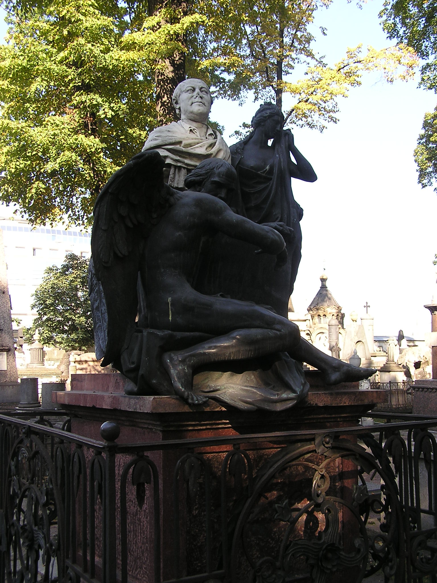 Lazarev Cemetery